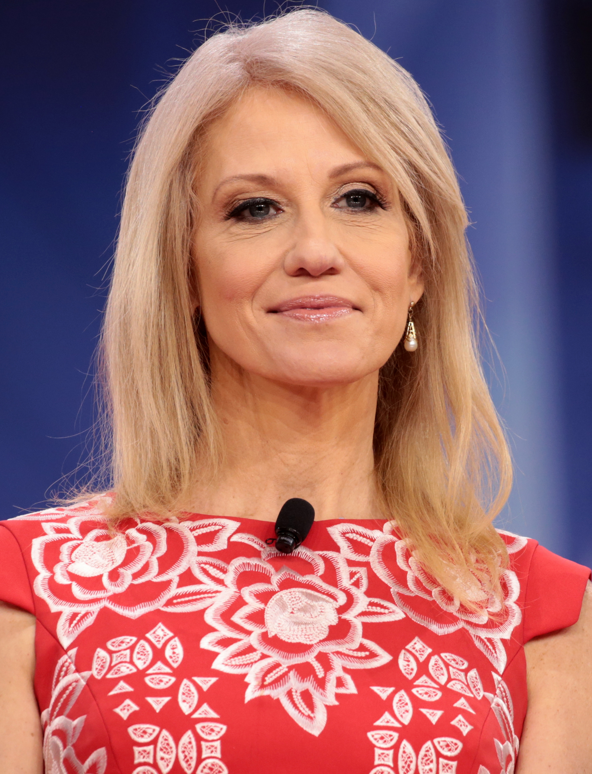 Kellyanne Conway speaking at the 2018 Conservative Political Action Conference (CPAC) in National Harbor, Maryland.